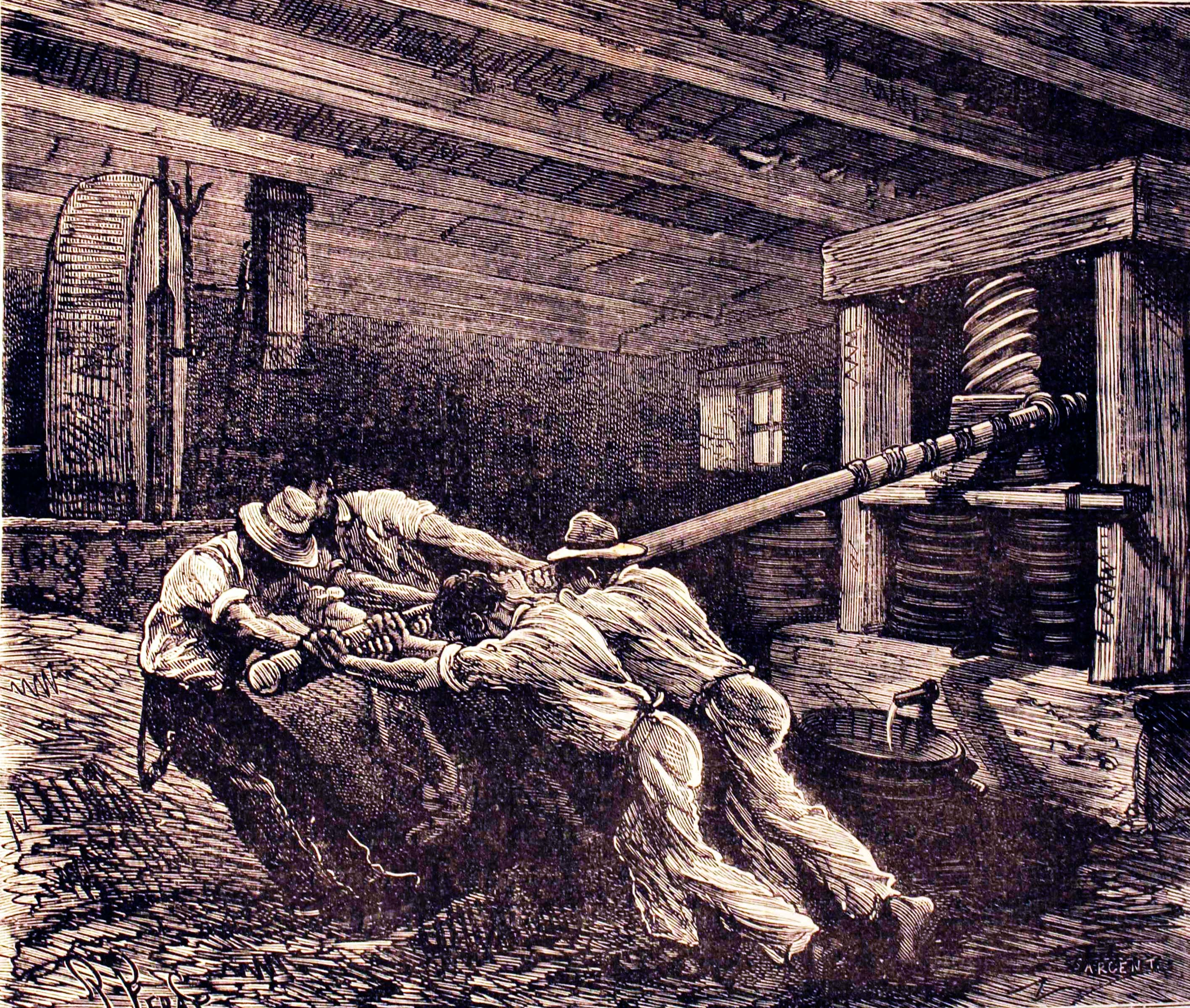 Olive pickers in Provence